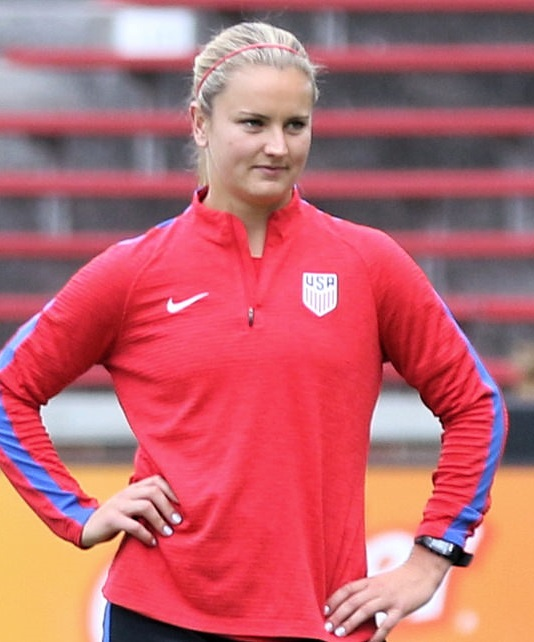 Lindsey Horan trains with the USWNT in September 2017 in Cincinnati, OH, prior to the team's friendly against New Zealand.